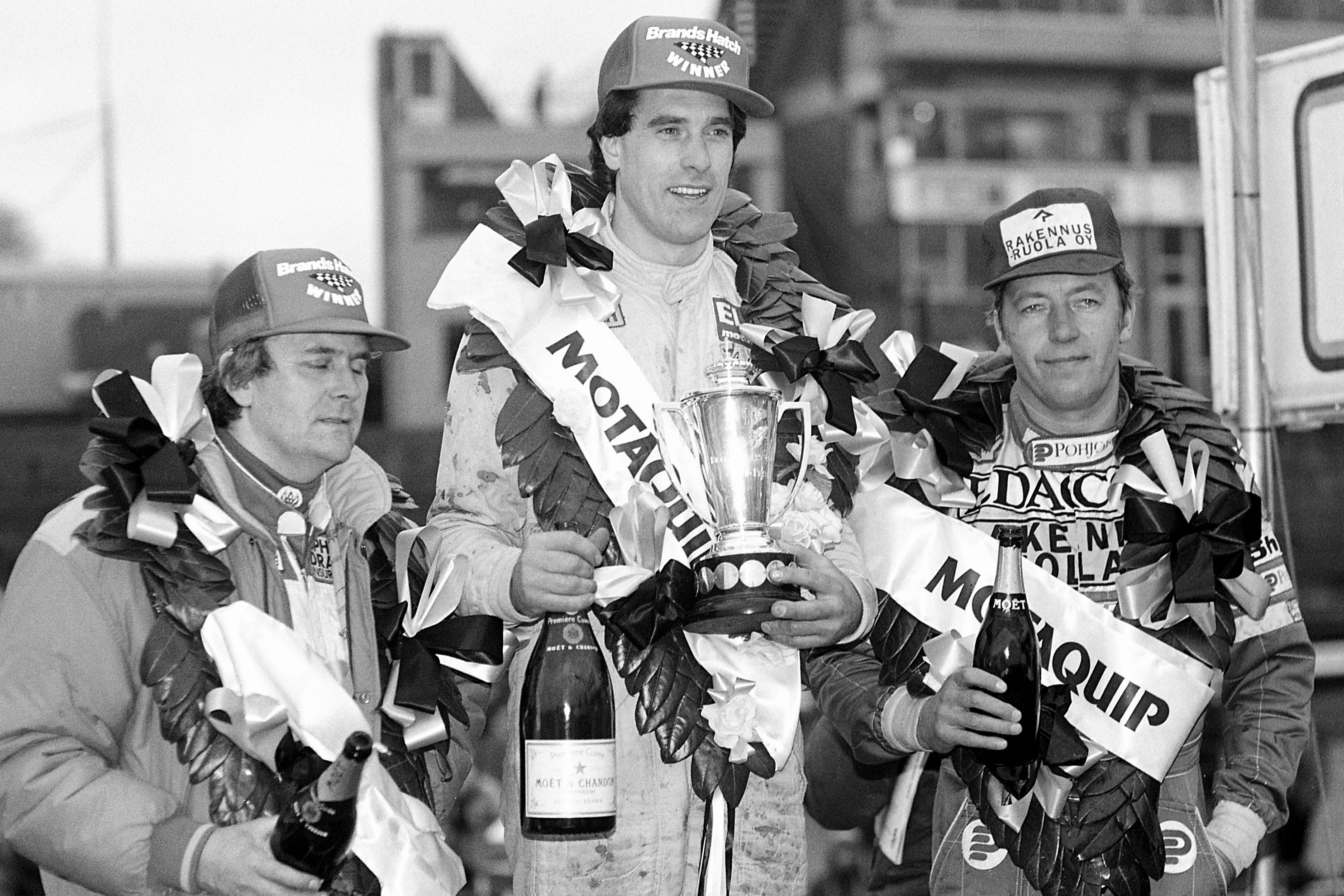 Austrian Andy Bentza (centre) won the 1986 British Rallycross Grand Prix at Brands Hatch. Runner-up became Finn Seppo Niittymäki (right), third Briton John Welch (left).